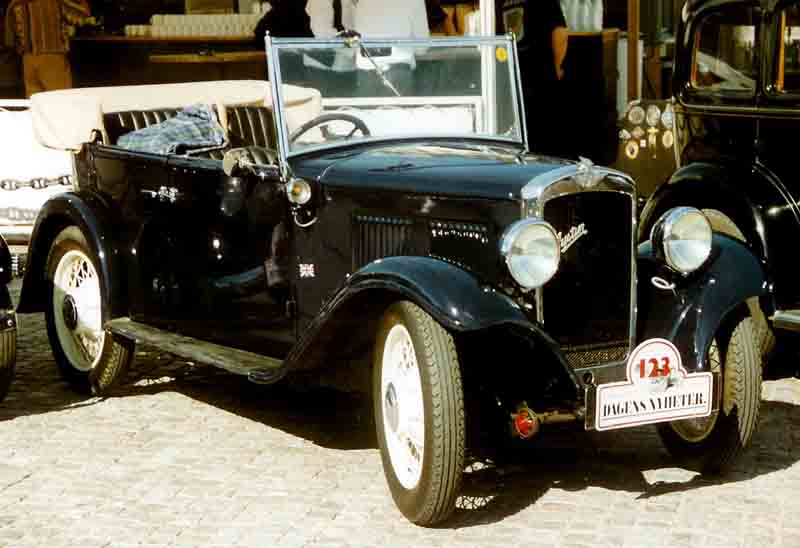 Austin 10/4 Open Road Tourer 1933